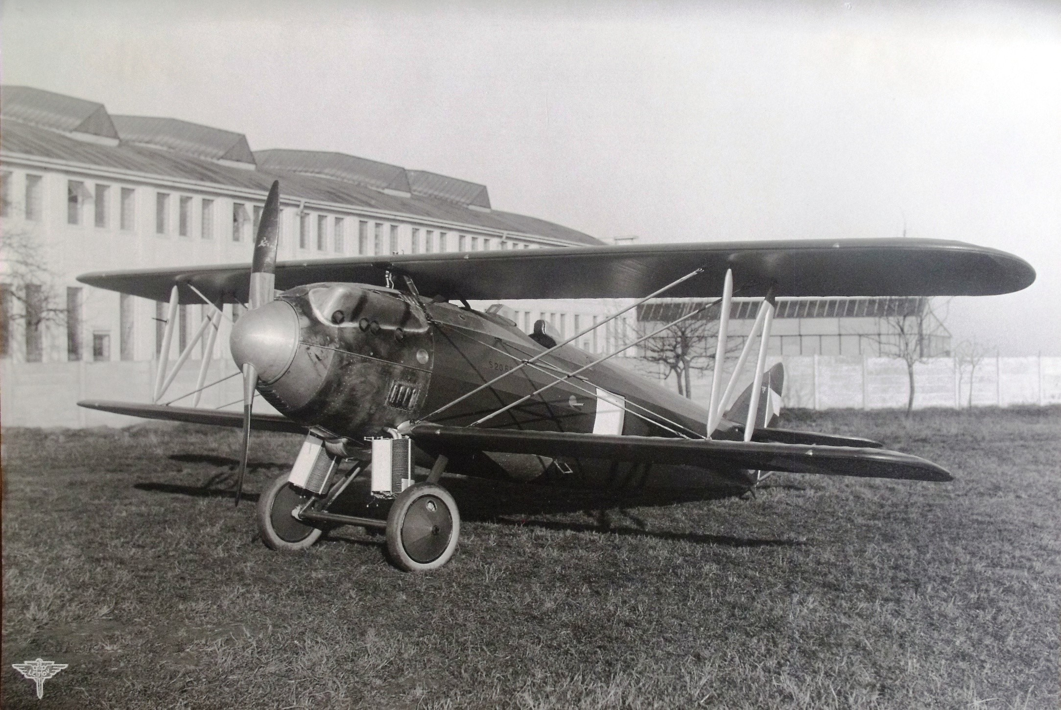 Letoun Š.20 na letišti